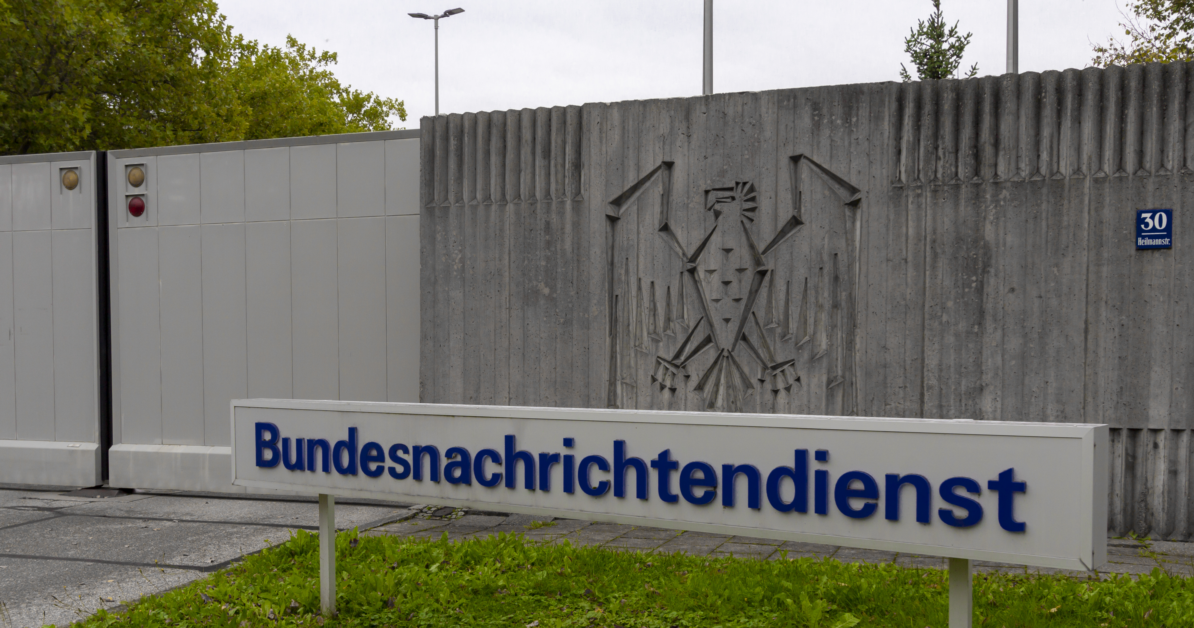 The Technical Enlightenment Center in Pullach of the Federal Intelligence Service.